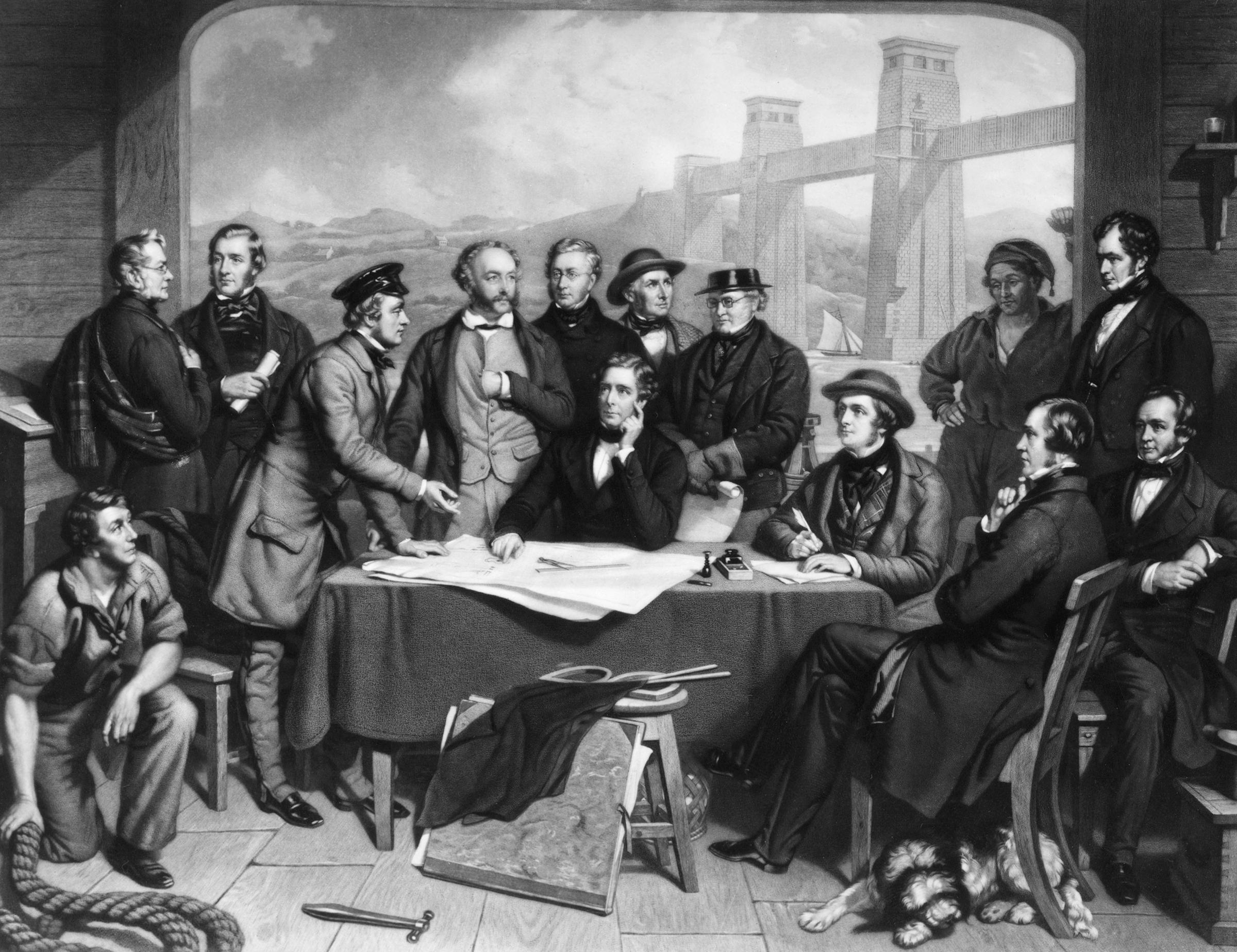 Conference of Engineers at the Menai Straits Preparatory to Floating one of the Tubes of the Britannia Bridge, by John Lucas (died 1874), published 1868. All images in this batch have been confirmed as author died before 1939 according to the official death date listed by the NPG.